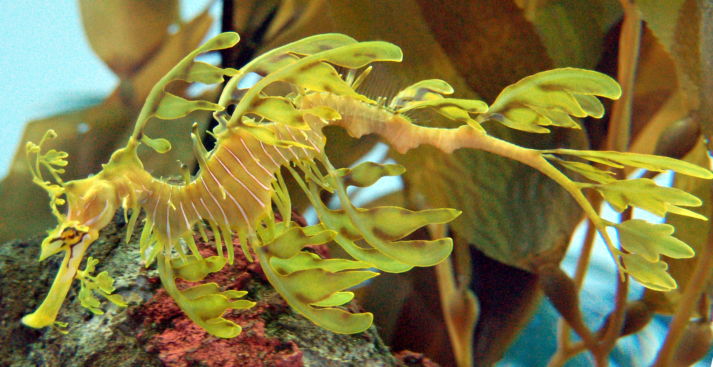 A photograph of Leafy Seadragonen (Phycodurus eques en ). Photo taken at the Pittsburgh Zoo.